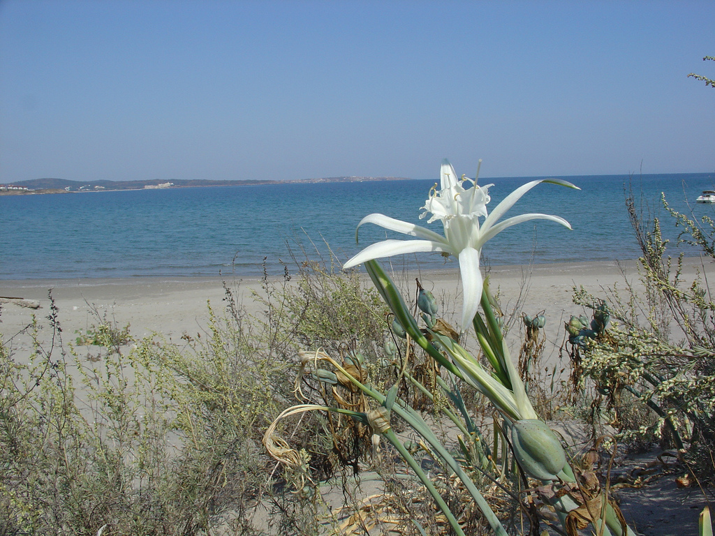 lilia